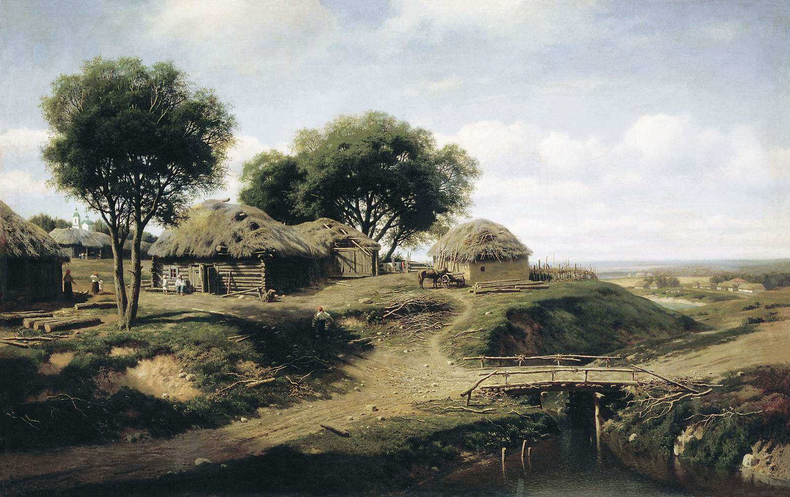 Mikhail Clodt (1832-1902) Village In The Province Of Orel